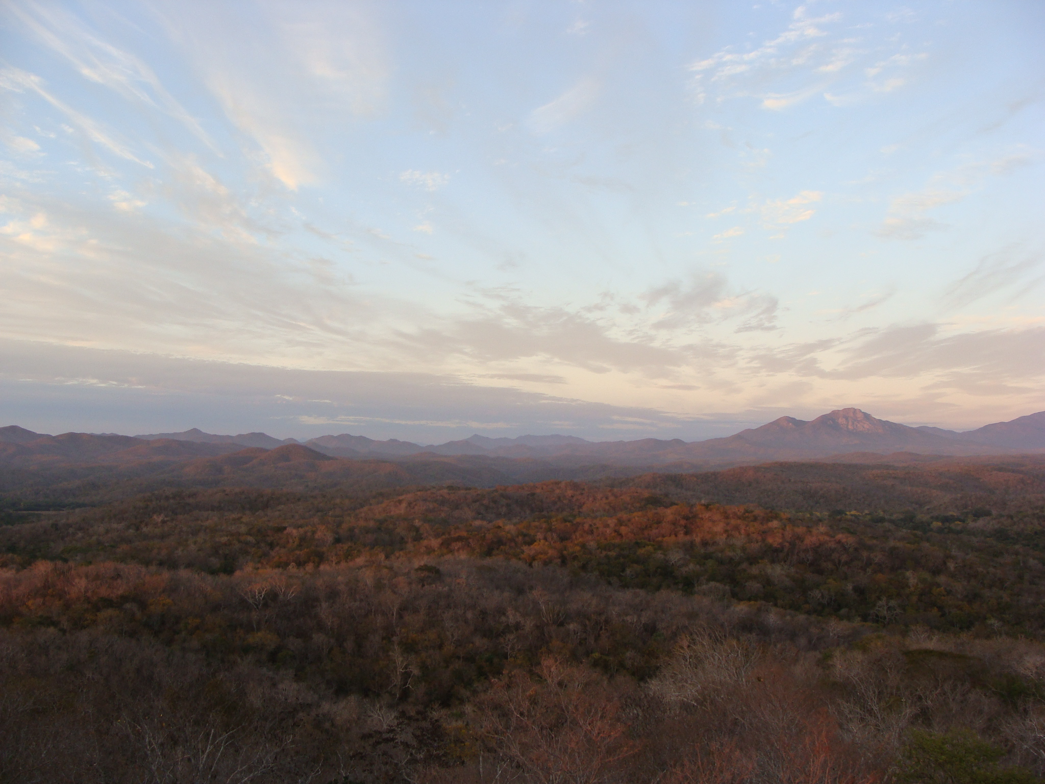 Chamela-Cuixmala dry tropical forest in February, within the Chamela-Cuixmala Biosphere Reserve, in Jalisco state, western México.